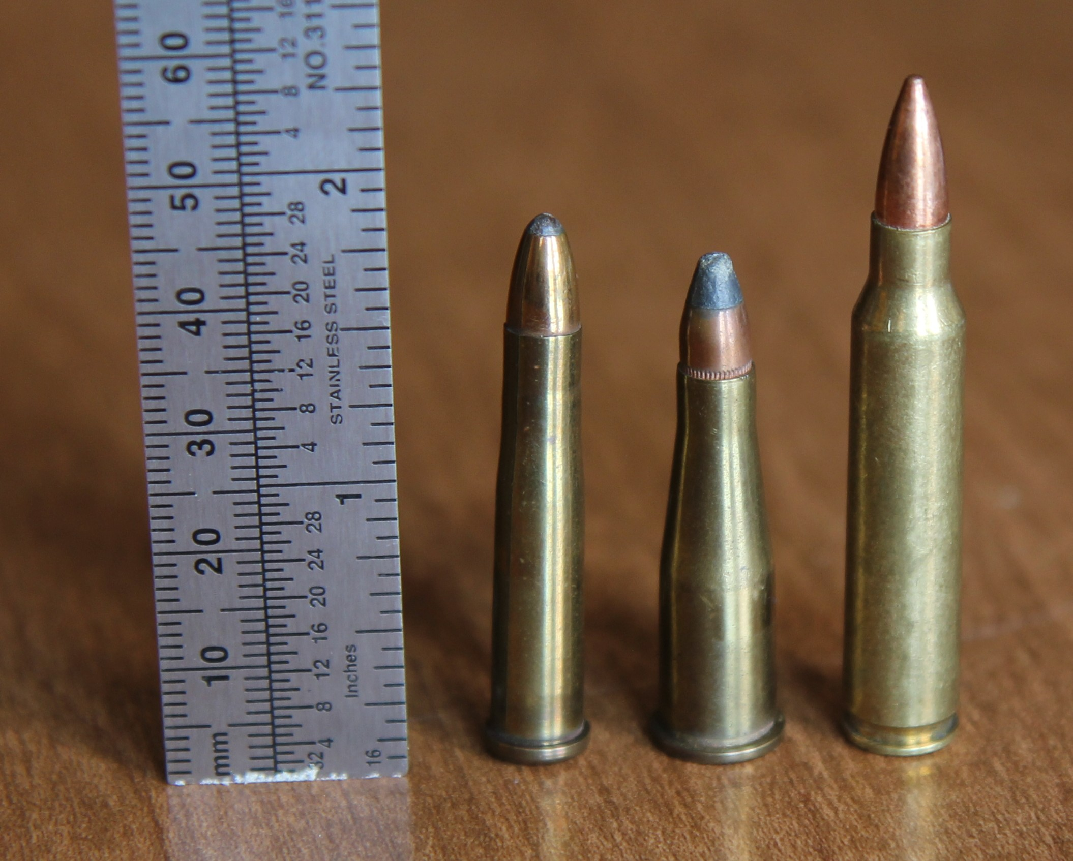 A .22 Remington Jet cartridge next to a metric/imperial ruler with .22 Hornet and .223 Remington cartridges for comparison.